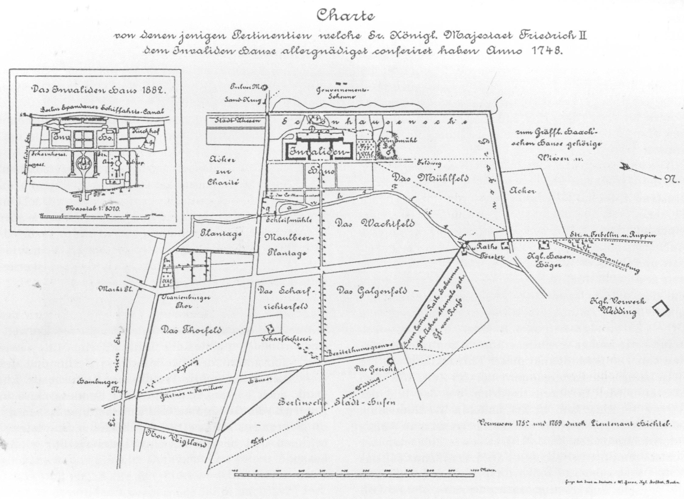 map of Invalidenhaus and surrounding area in Berlin-Mitte in 1748 and 1882